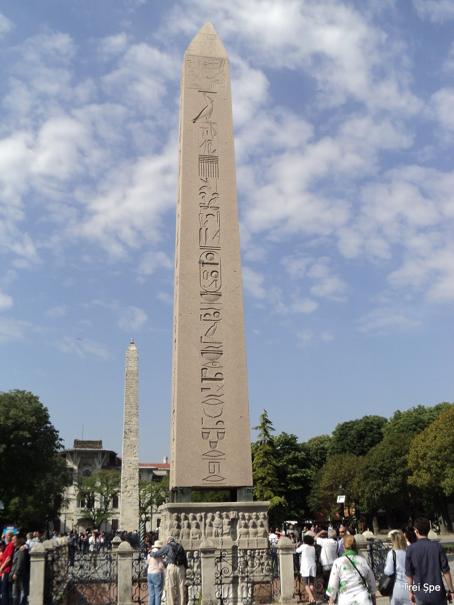 The Obelisk of Theodosius